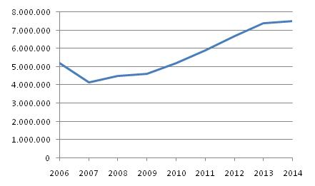 Hong Kong Disneyland anual visitors 2006-2014